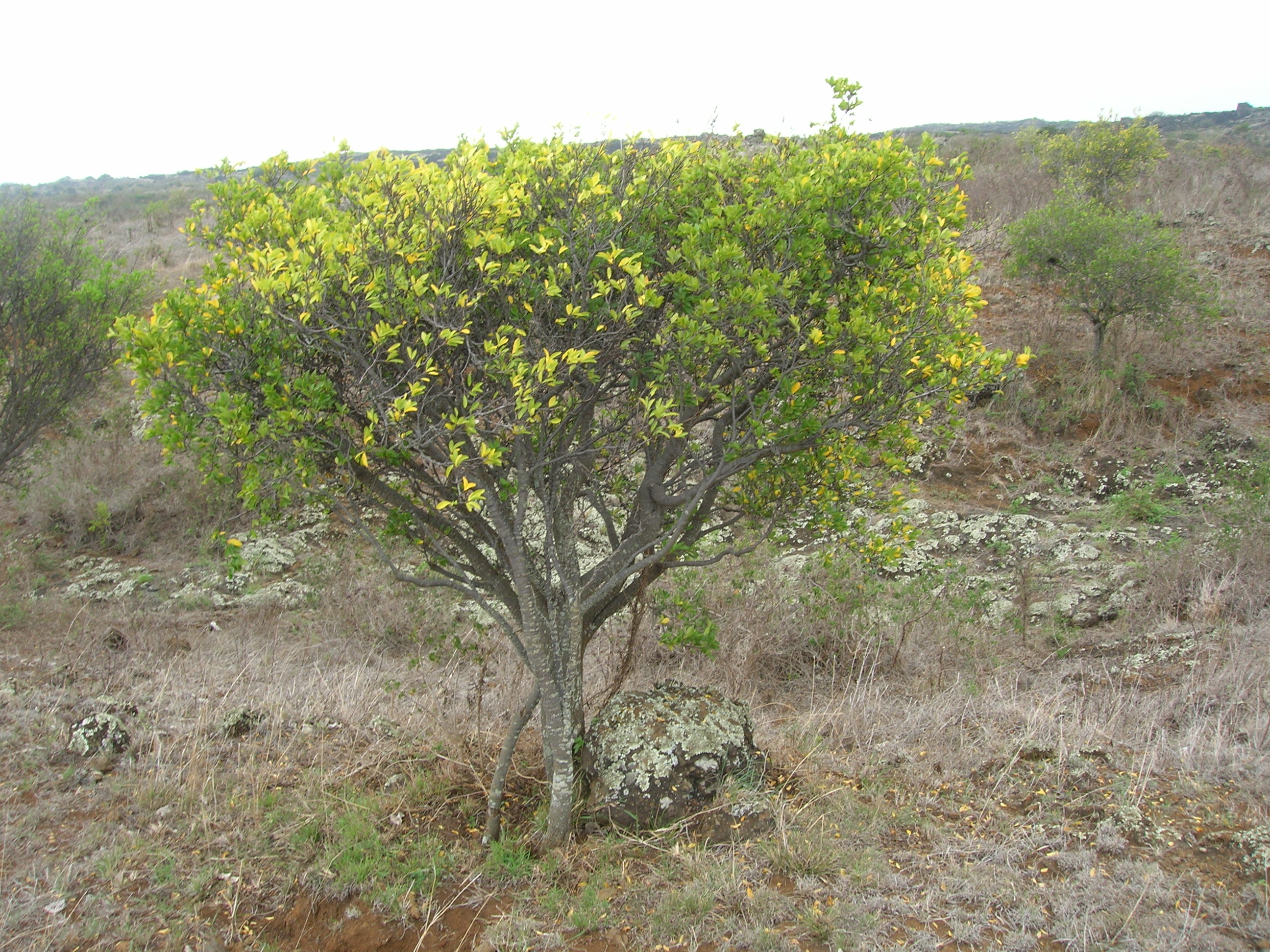 Wikstroemia monticola (habit). Location: Maui, Auwahi